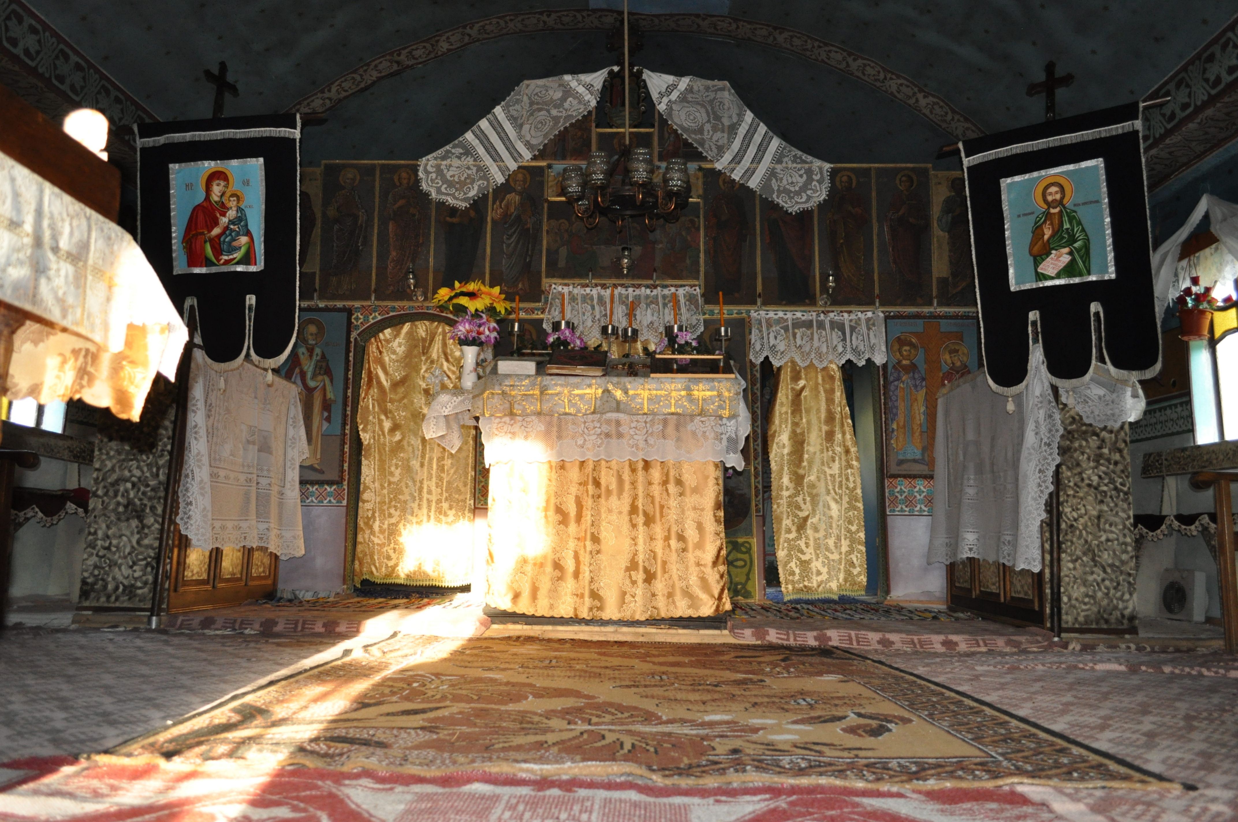 Wooden church in Valea Mare (Gurahonț), Arad county, Romania